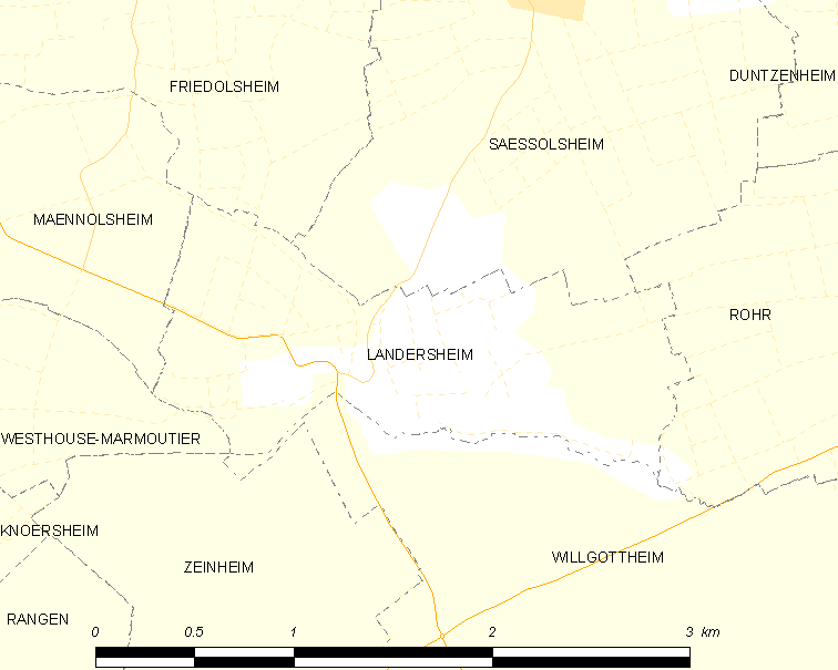 Map of French municipality